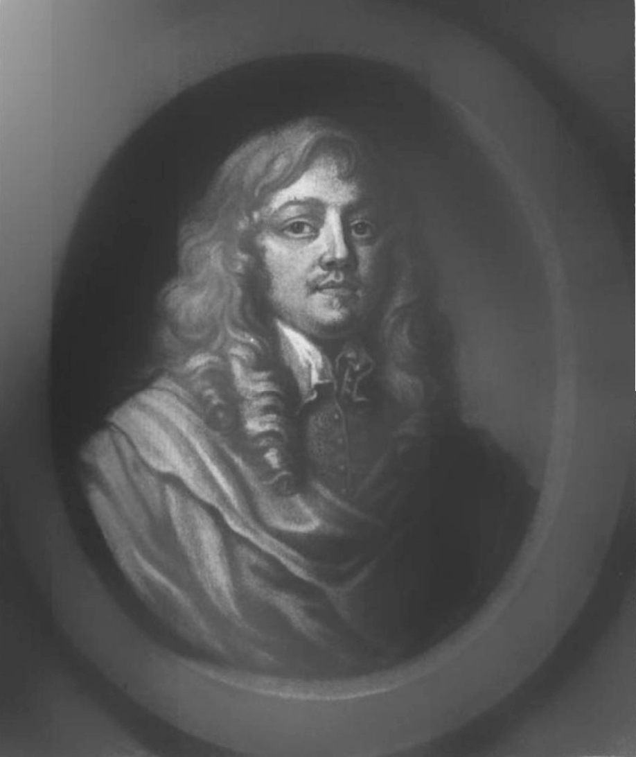 Sir John Perceval, 1st Baronet (7 September 1629 – 1 November 1665) was a substantial land owner in Ireland. He was knighted by Henry Cromwell for his services to the Commonwealth government of Ireland during the Interregnum. Shortly before the Restoration he held the offices of Chief Prothonotary of the Common Pleas, Clerk of the Crown. After the Restoration he was granted a baronetcy and given a full pardon for his activities during the Interregnum. After the Restoration he was a Privy Councillor to King Charles II, a Knight of the Shire for the County Cork, and one of the members of the Council of Trade.